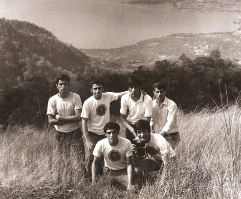 Nasser Hejazi And Ali Parvin